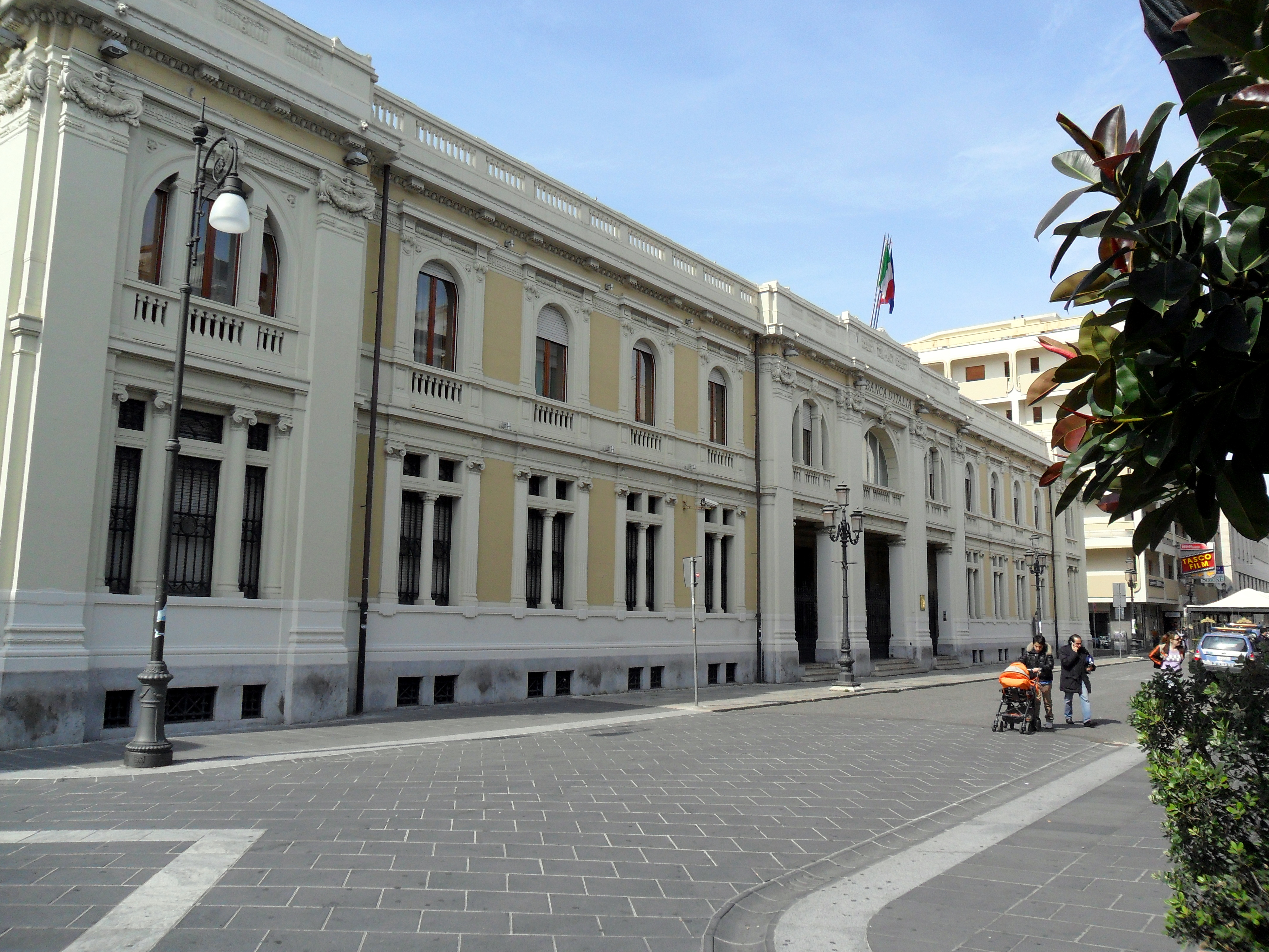 Bank of Italy